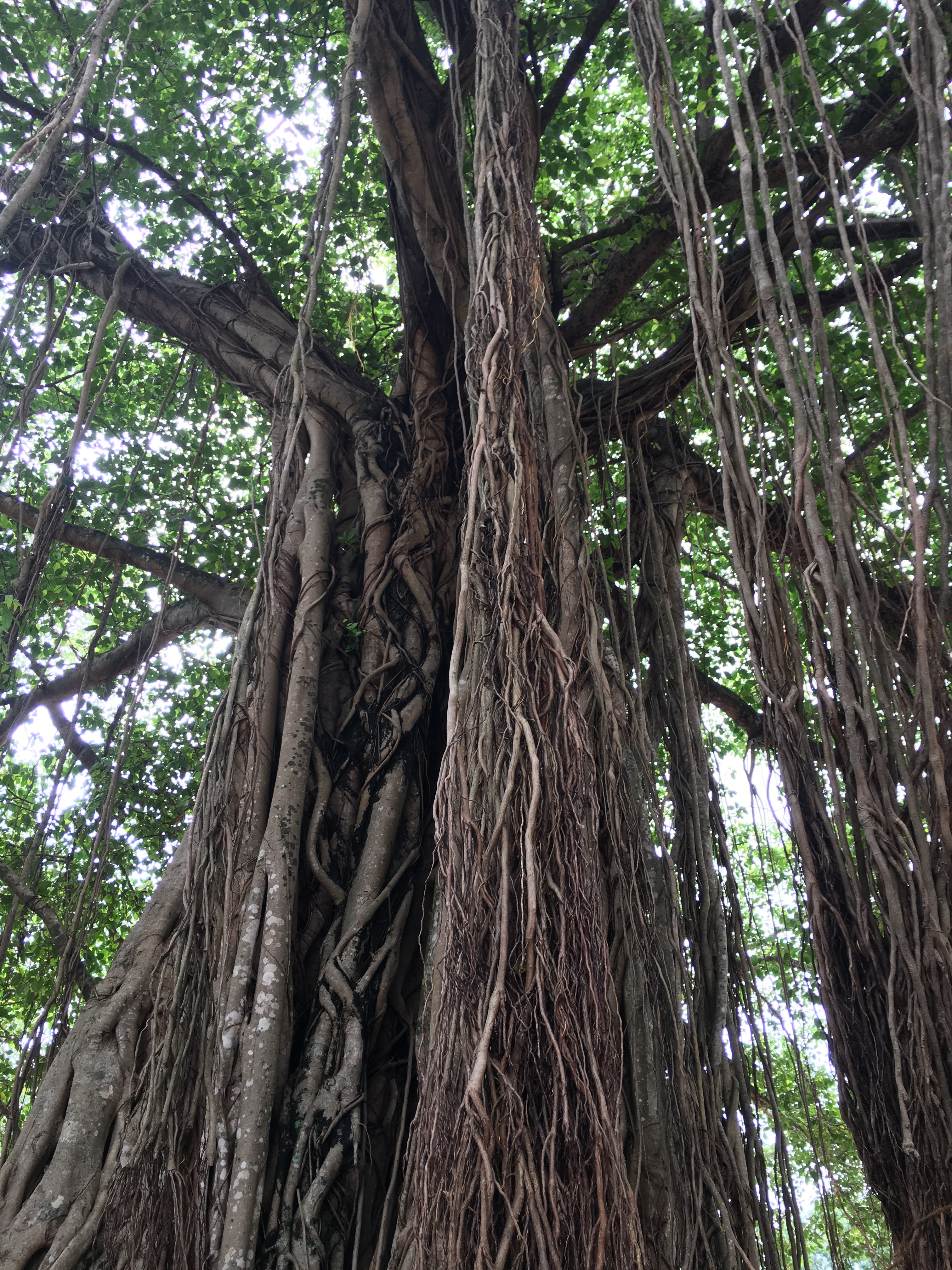 Ficus benghalensis, with the common name Indian banyan, is a tree which is native to the Indian Subcontinent. Specimens in India are among the largest trees in the world by canopy coverage.